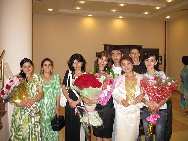 Tahmina Niyazova with family and friends, following a fashion festival in Dushanbe